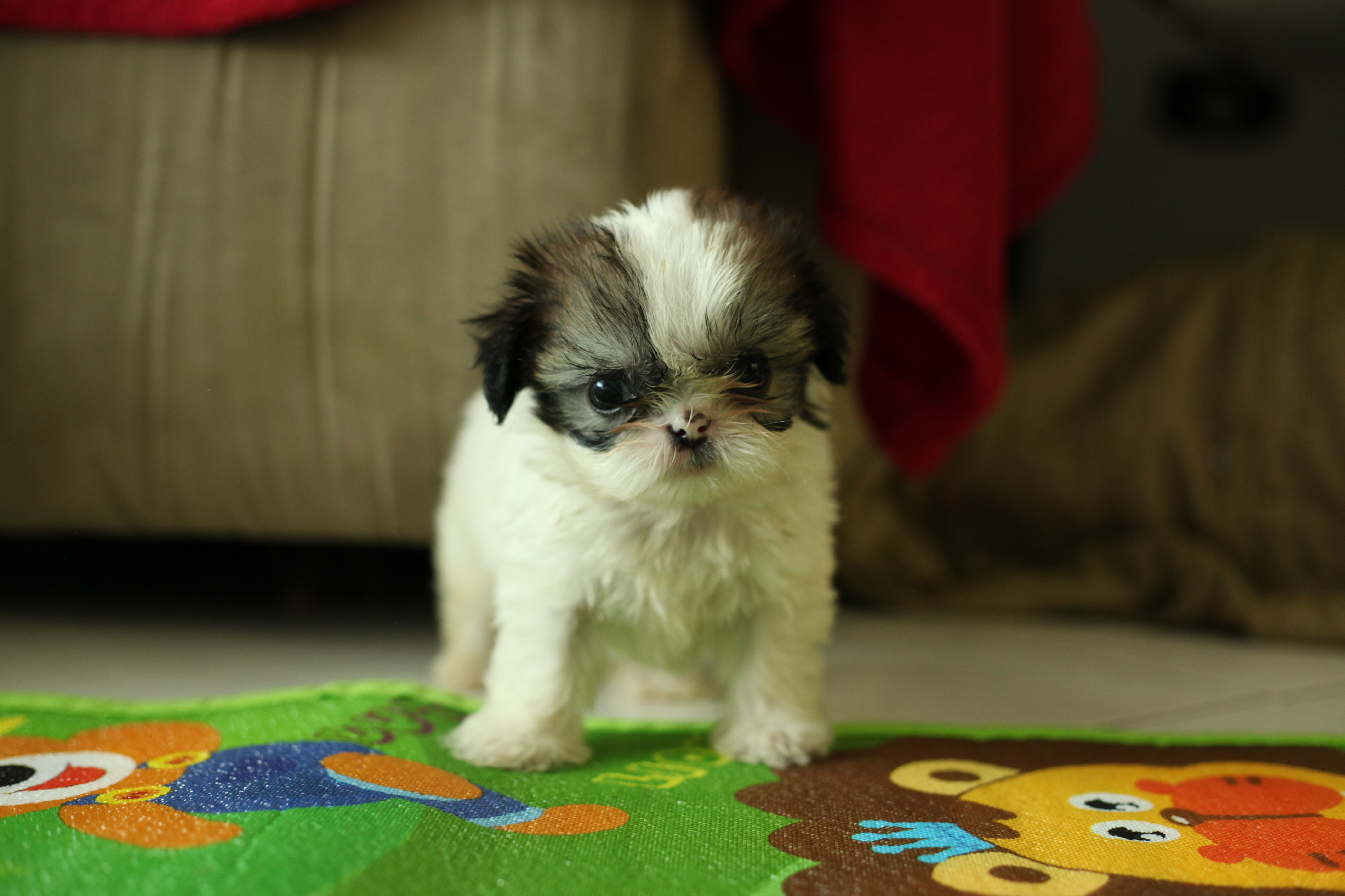 Shih tzu puppies